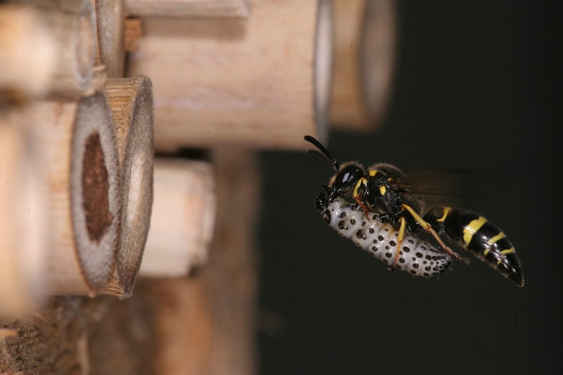 Ancistrocerus trifaciatus